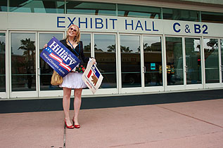 Citizen Kate at the San Diego Democratic Convention in 2007